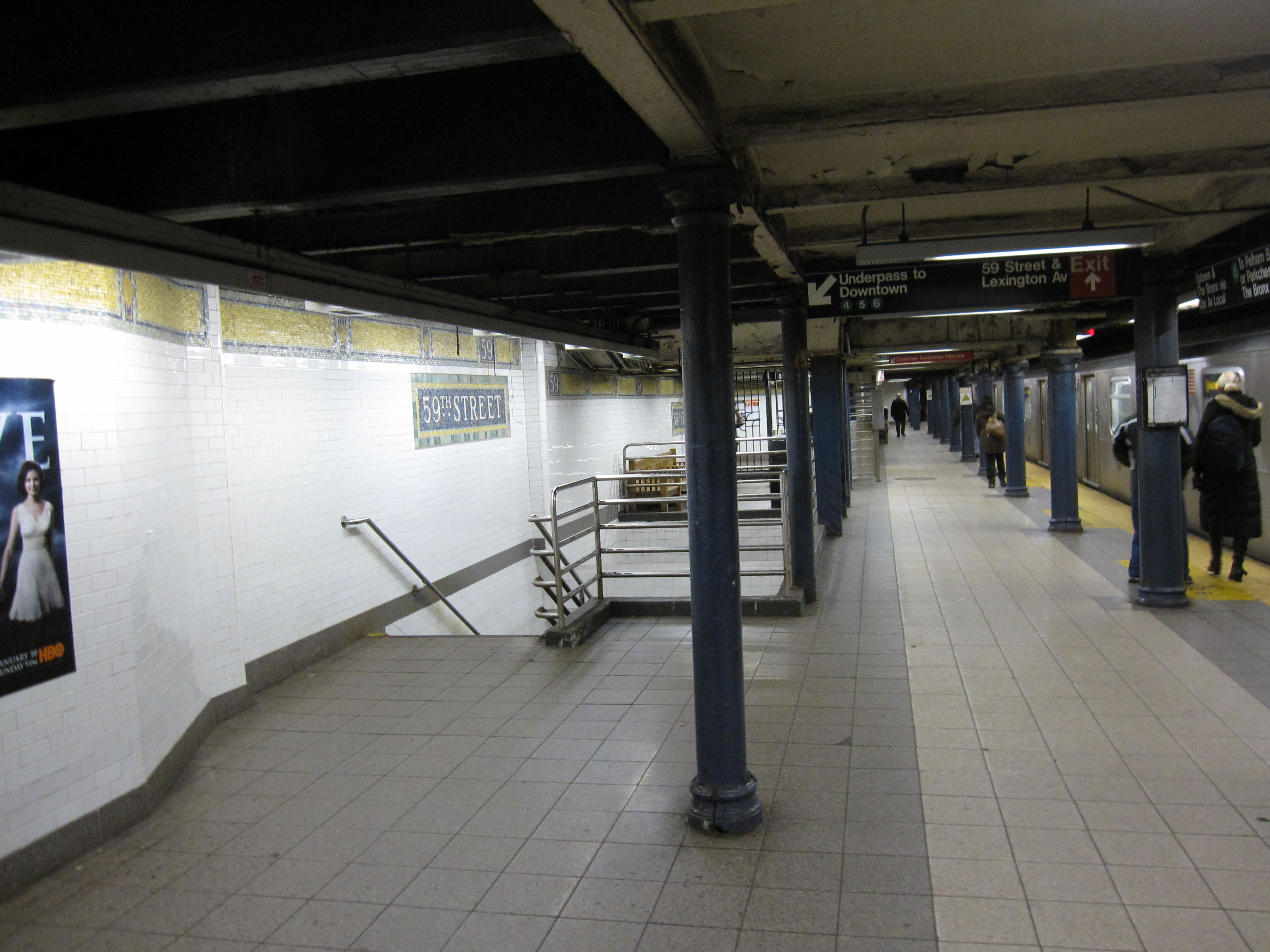 59th Street (IRT Lexington Avenue)